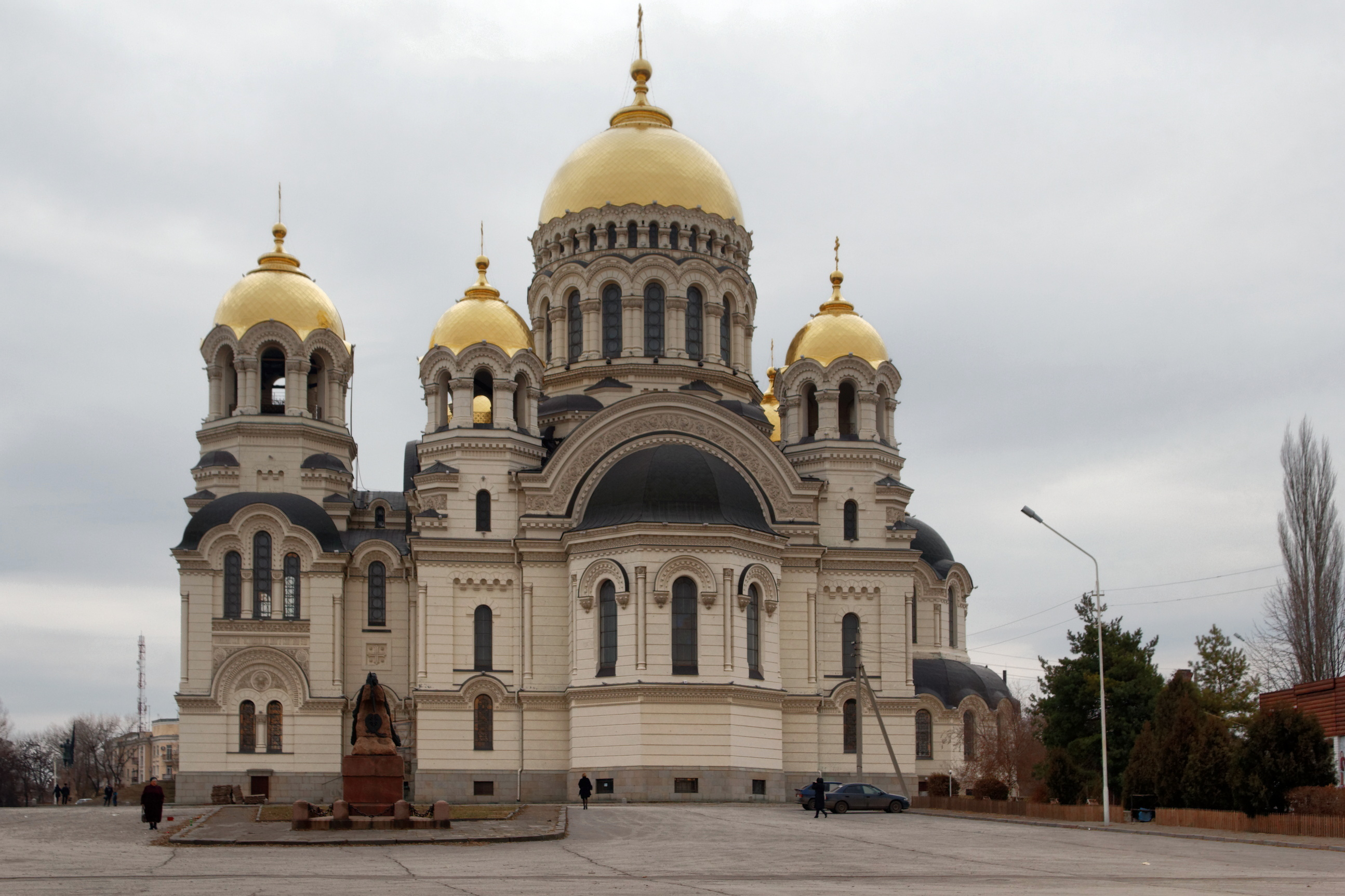 Novocherkassk. Ascension Cathedral